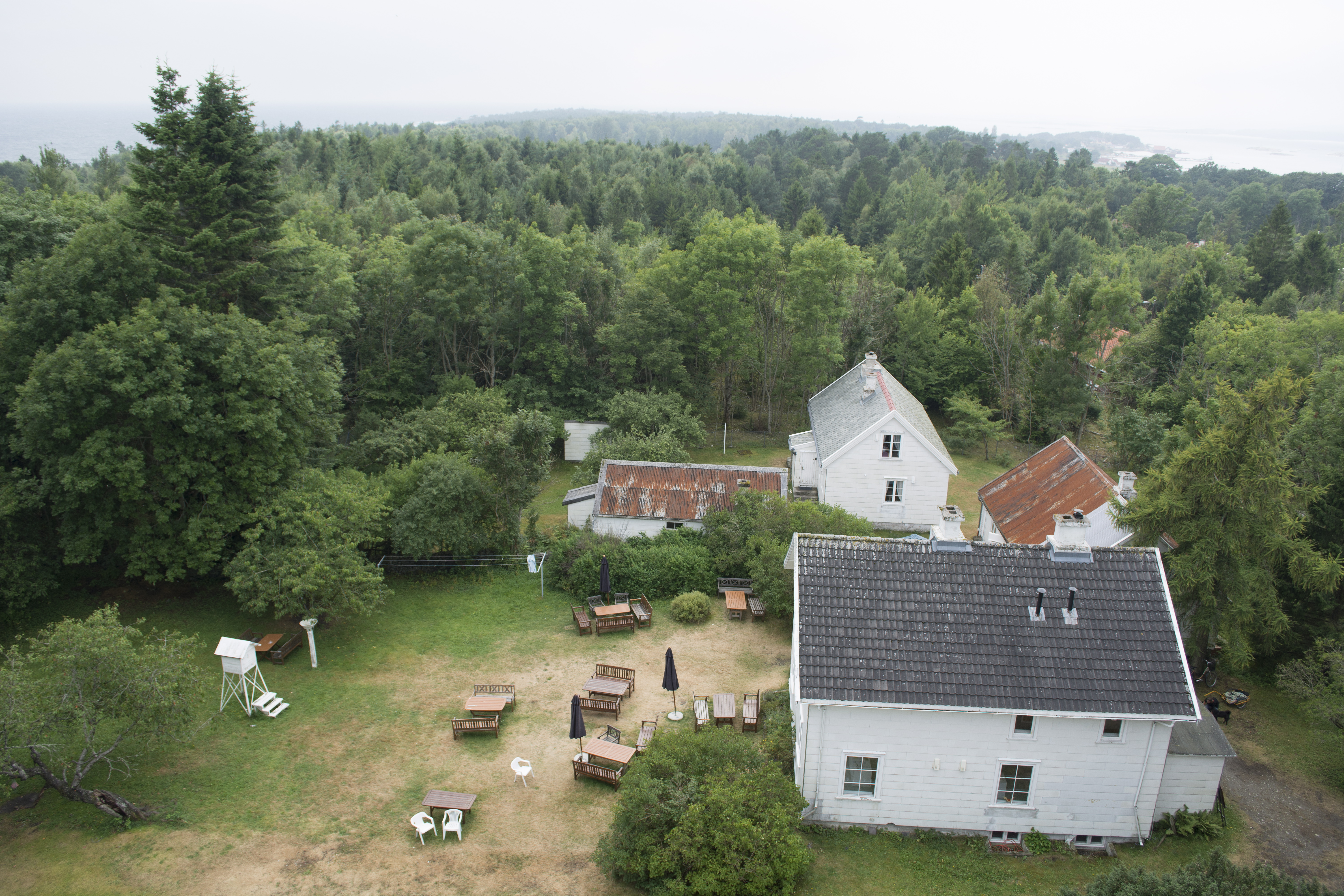 Jomfruland lighthouse-watchers house